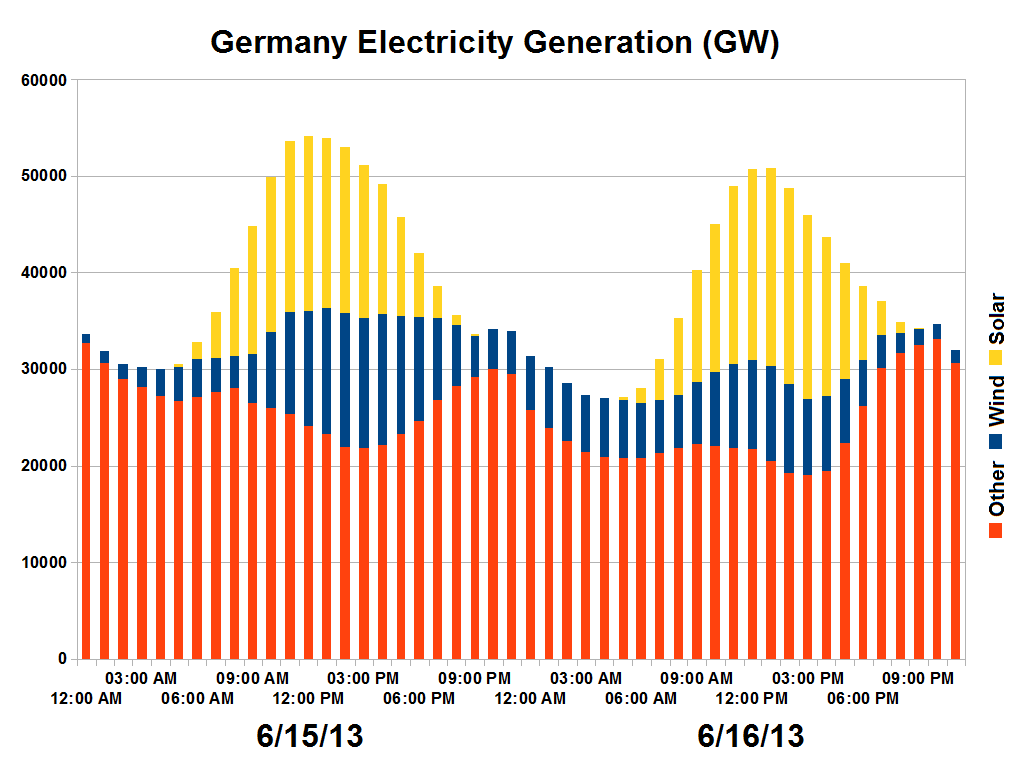 Germany electricity generation on June 15 and June 16, 2013. On the 15th, Germany produced 163,435 GWh from wind and 166,471 GWh from solar power, and on the 16th, 140,845 GWh from wind and 180,407 GWh from solar power. A peak of 20,560 GW was generated from solar power at 1:15 pm on June 16.